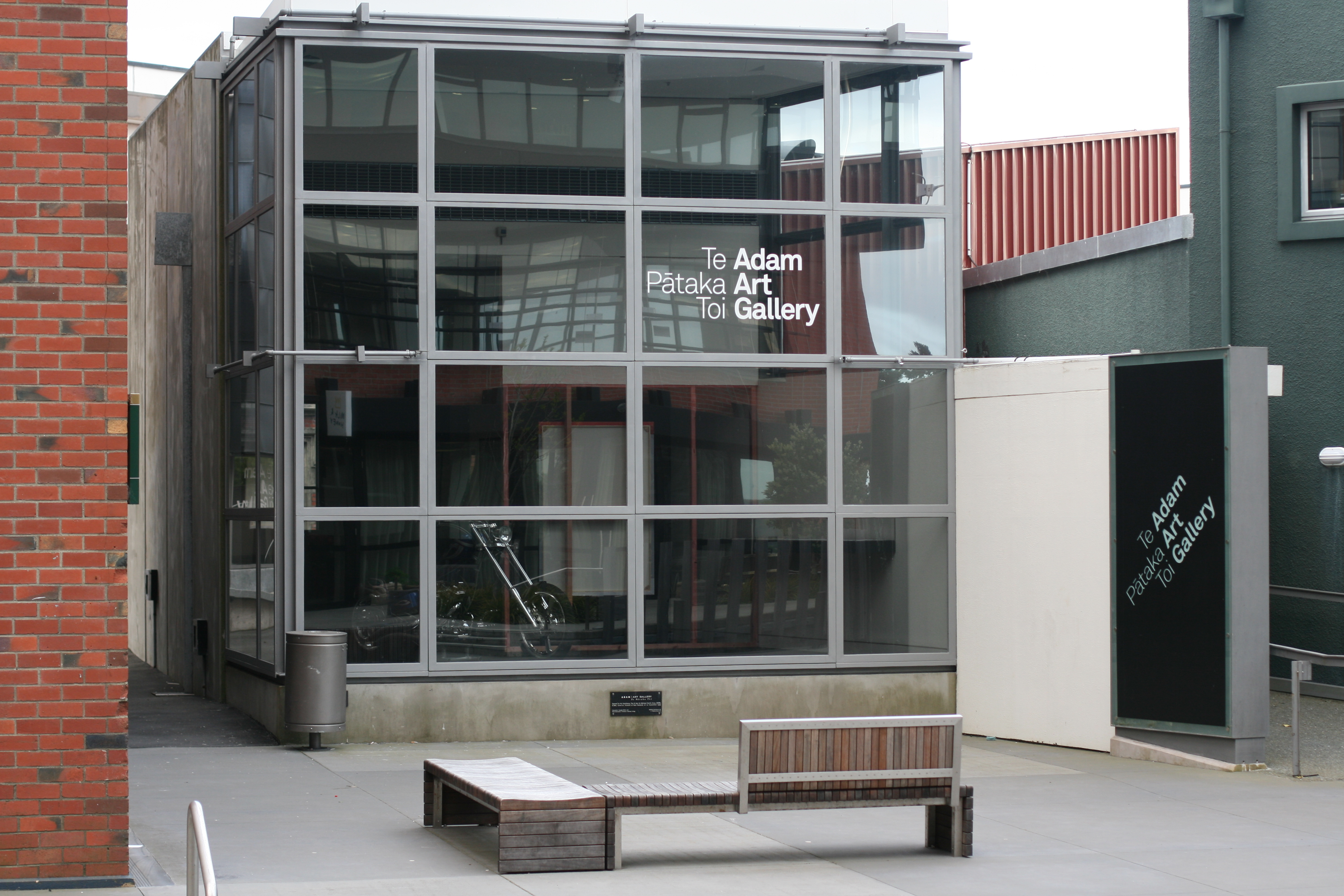 Frontage of the Adam Art Gallery on the Victoria University of Wellington Kelburn campus, looking approximately North. The gallery is a glass-fronted building, of which only the top floor is visible, with a red-roofed wing in the background. To the left of the gallery is the Old Kick building, to the right the portion of the Students' Union building currently occupied by the ANZ bank.